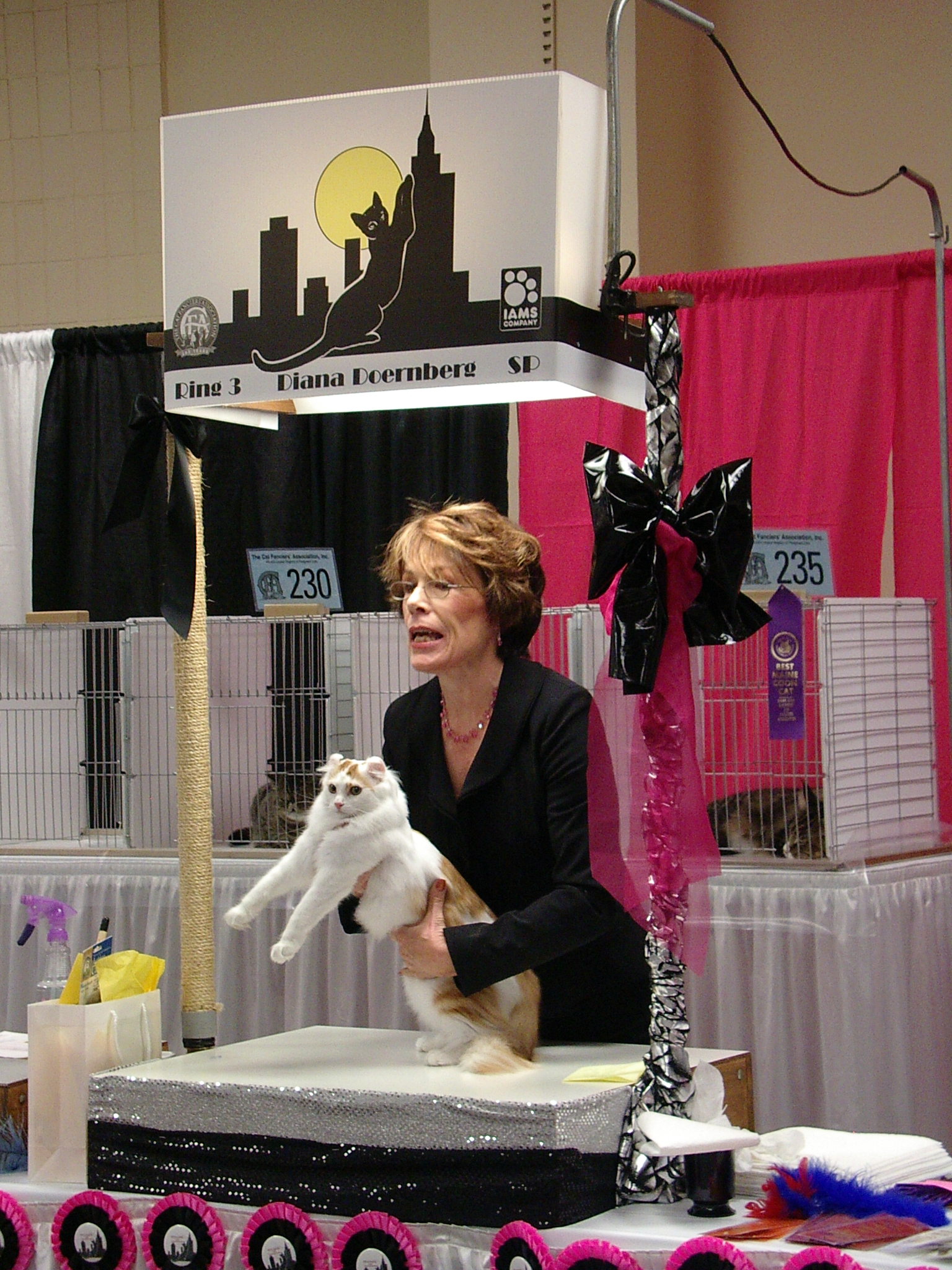 Judge Diana Doernberg with an American Curl. 2006 CFA-Iams Cat Championship, Madison Square Garden